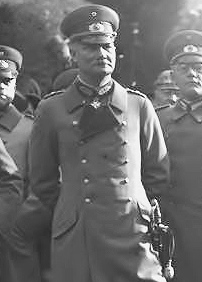 Cropped photo of German general, Kurt Freiherr von Hammerstein-Equord